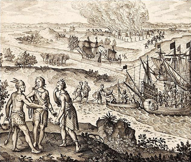 The Abduction of Pocahontas, copper engraving by Johann Theodore de Bry, 1618